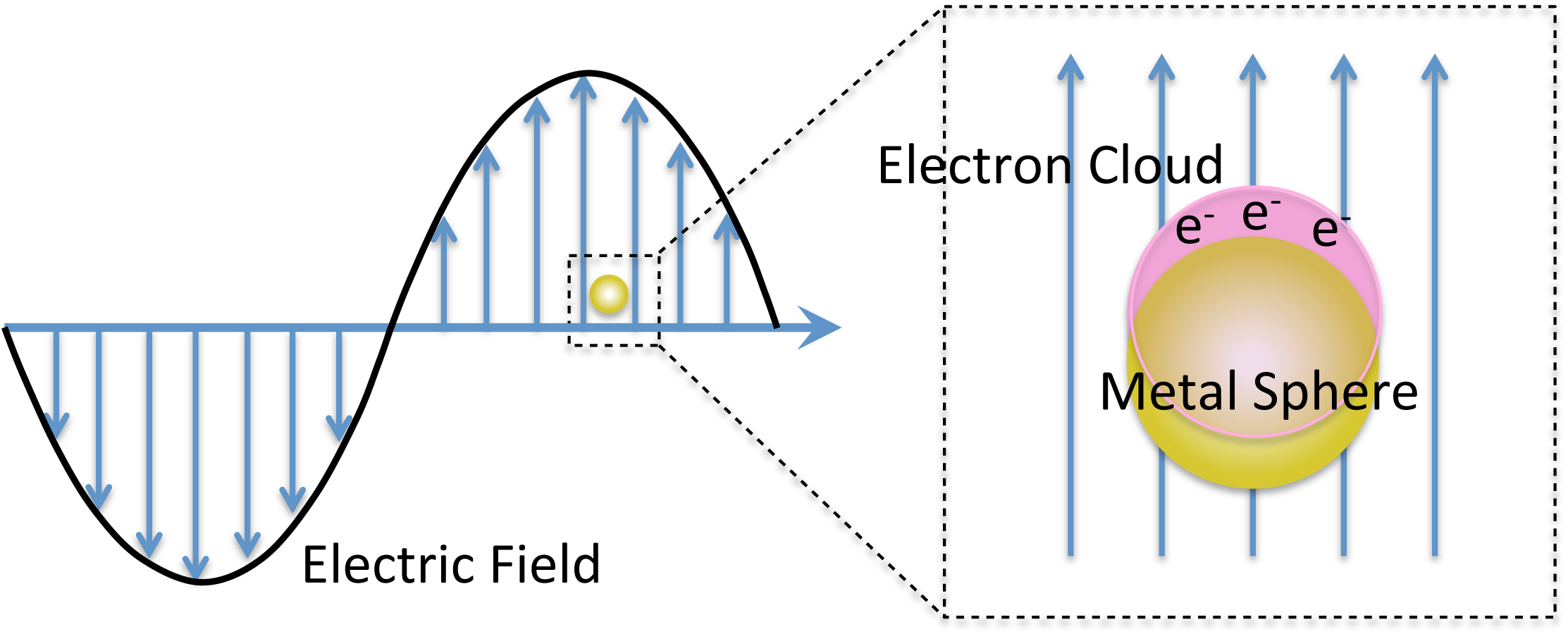 Illustration of the localized surface plasmon resonance of a metal nanoparticle in an oscillating electric field